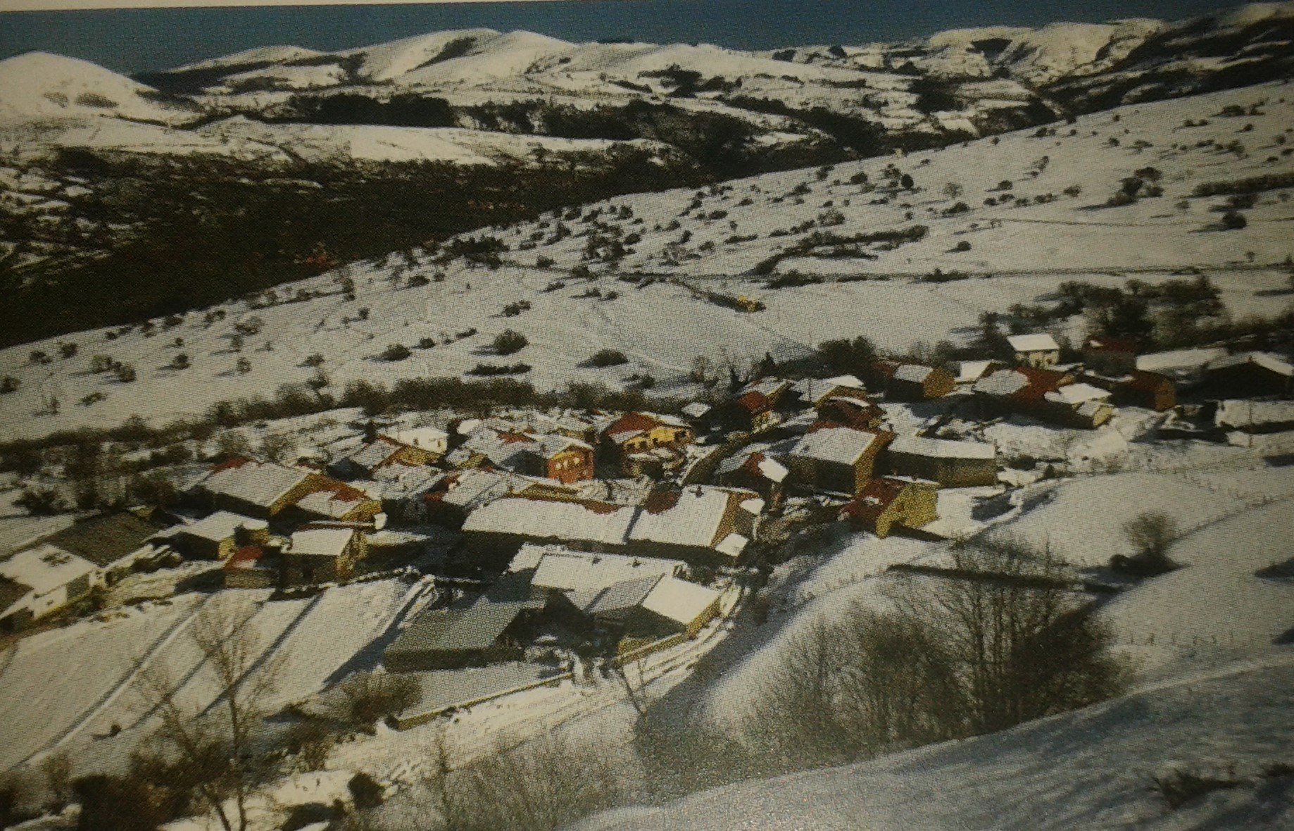 San Vicente